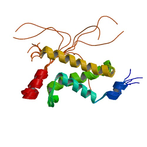 Structure of the KIX domain of murine CREBBP (yellow, green and cyan) in complex with the transactivation domain of human NF-κB p65 / RELA (red).